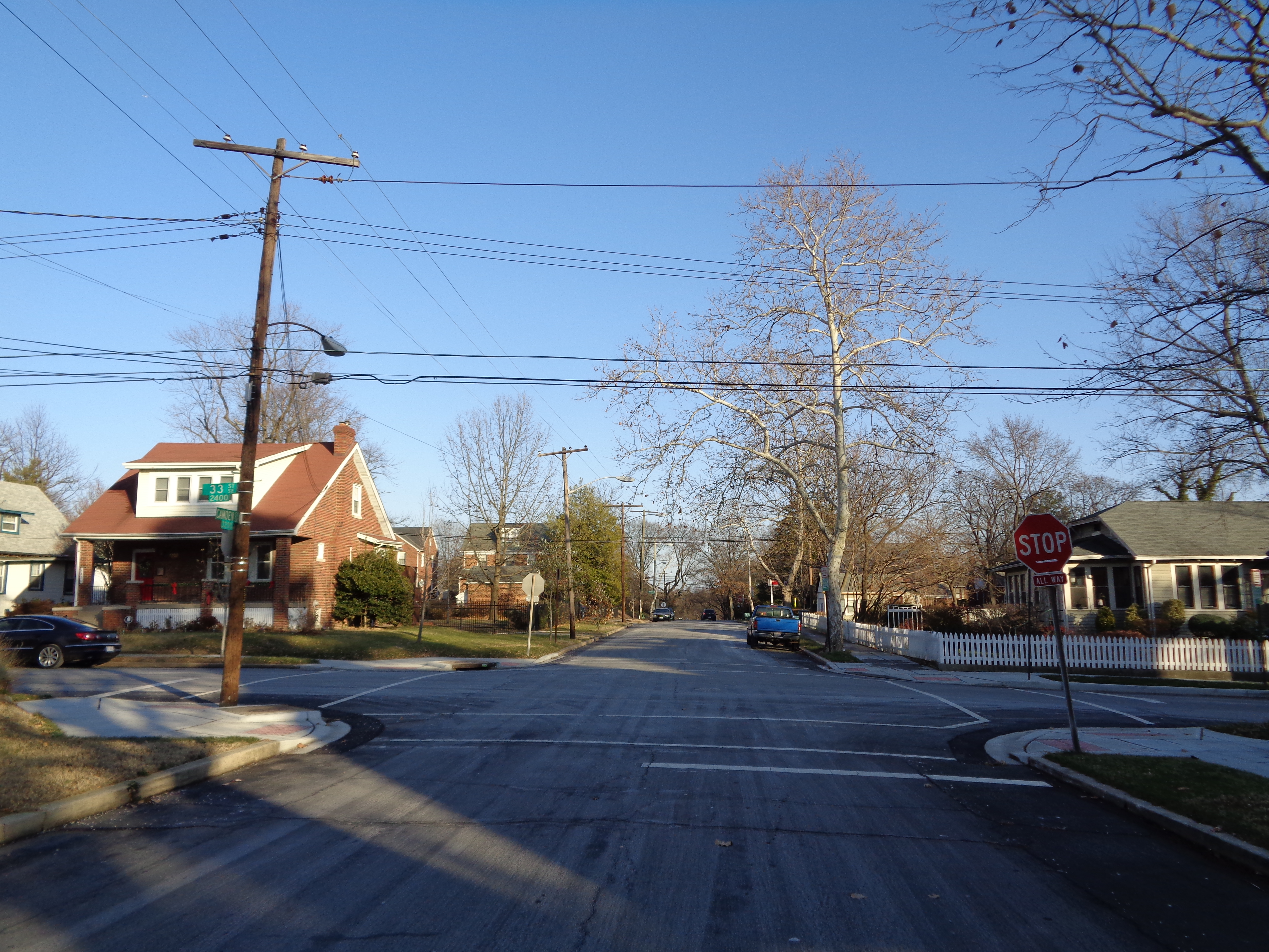 The intersection of 33rd St. and Camden St. SE, in Naylor Gardens, December 2017